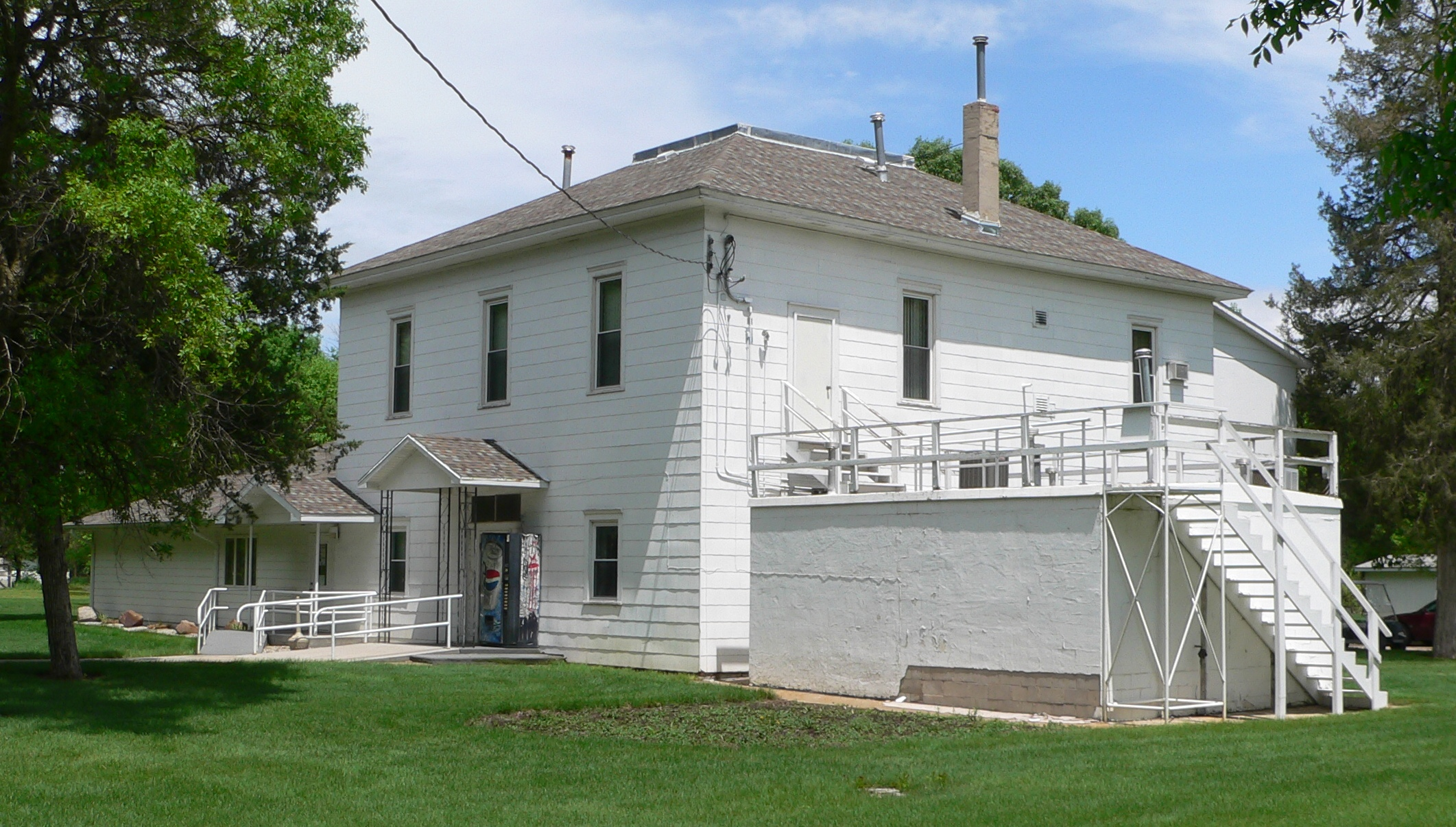 Frontier County Courthouse in Stockville, Nebraska; seen from the southeast. The building was constructed in 1889.